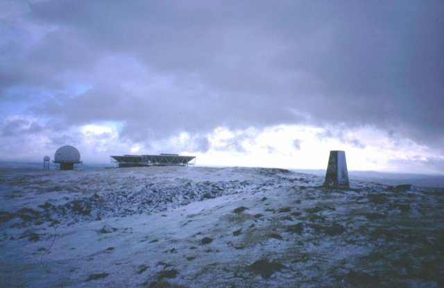 Clee Hill summit. Titterstone Clee is a much quarried dolerite hill in South Shropshire. A good place to find a white Christmas. The equipment visible are an air traffic control radar installation.